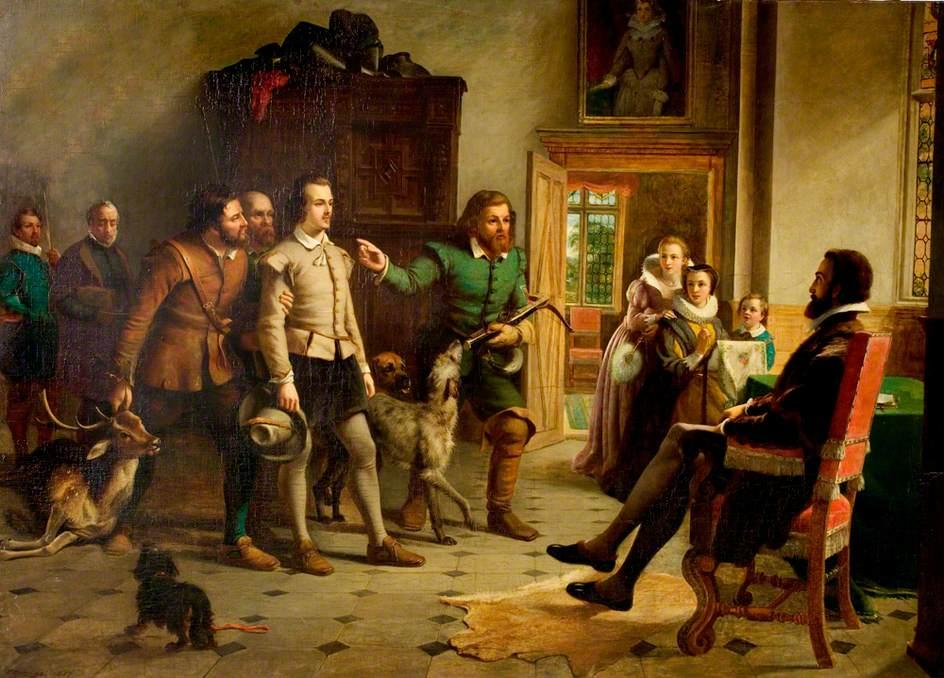 painting of Shakspeare Before Thomas Lucy